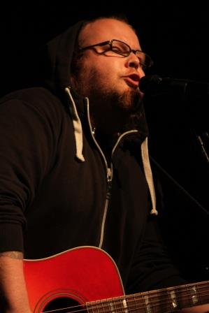 Andreas Kümmert in the Batschkapp in Frankfurt/Main